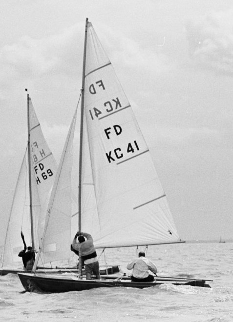 Paul Henderson in action during the 1962 European Championship Flying Dutchman on the IJsselmeer.